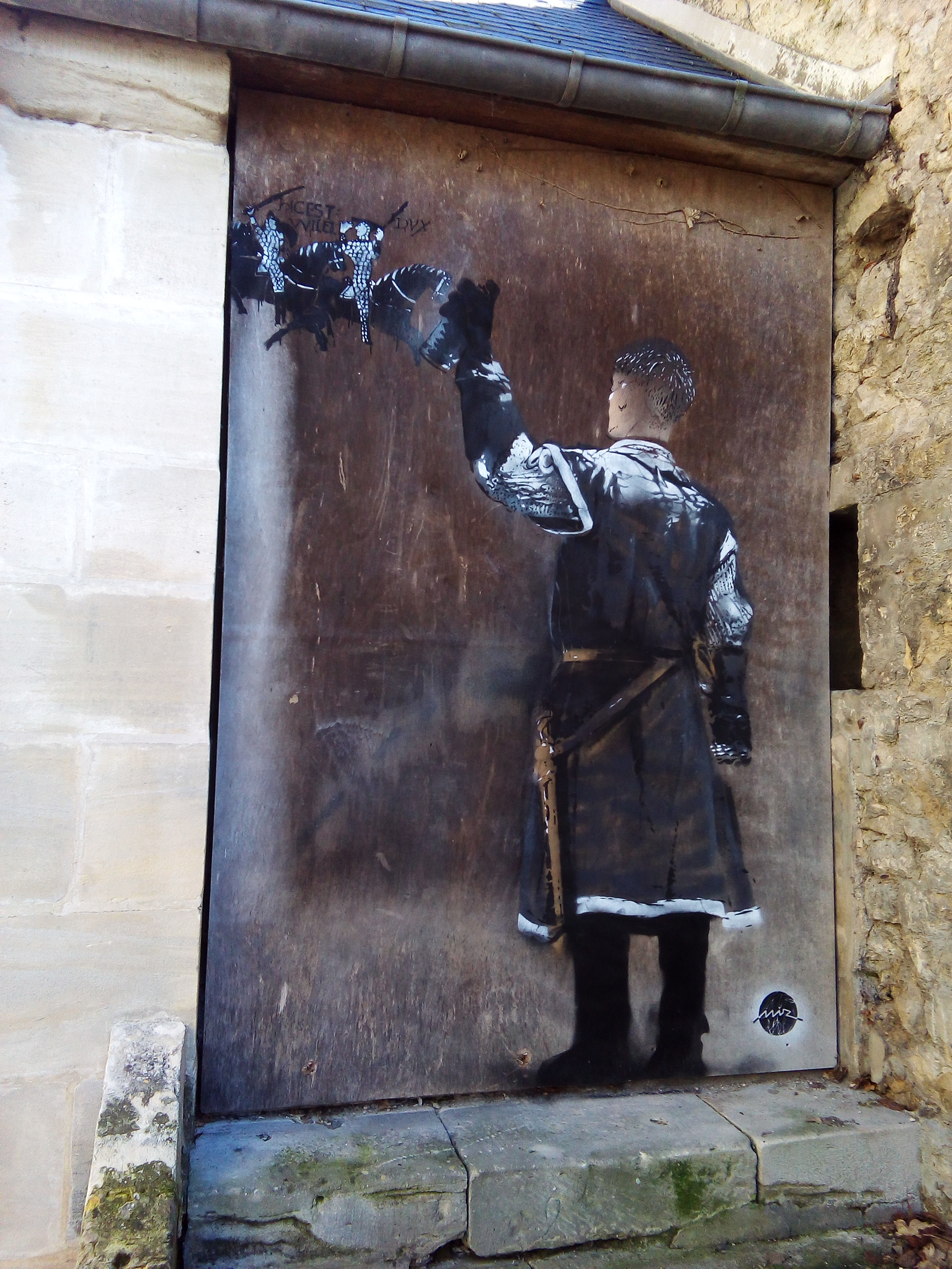 Street art in Bayeux about Bayeux Tapestry